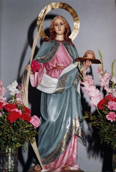 Saint Quitterie's image, at Puebla del Salvador (Cuenca, Spain)